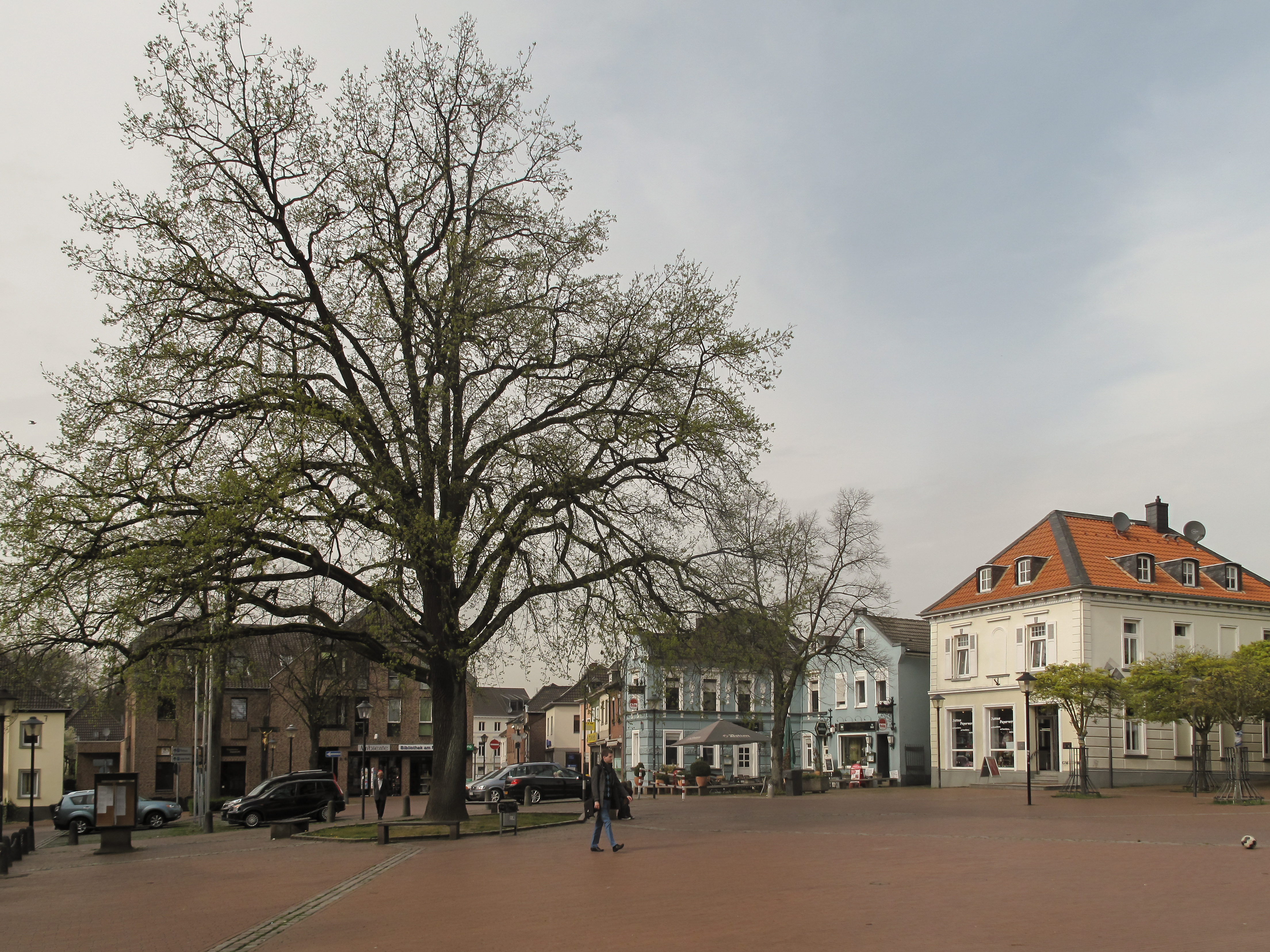 Waldniel, view to the Markt This is a photograph of an architectural monument., no. 49